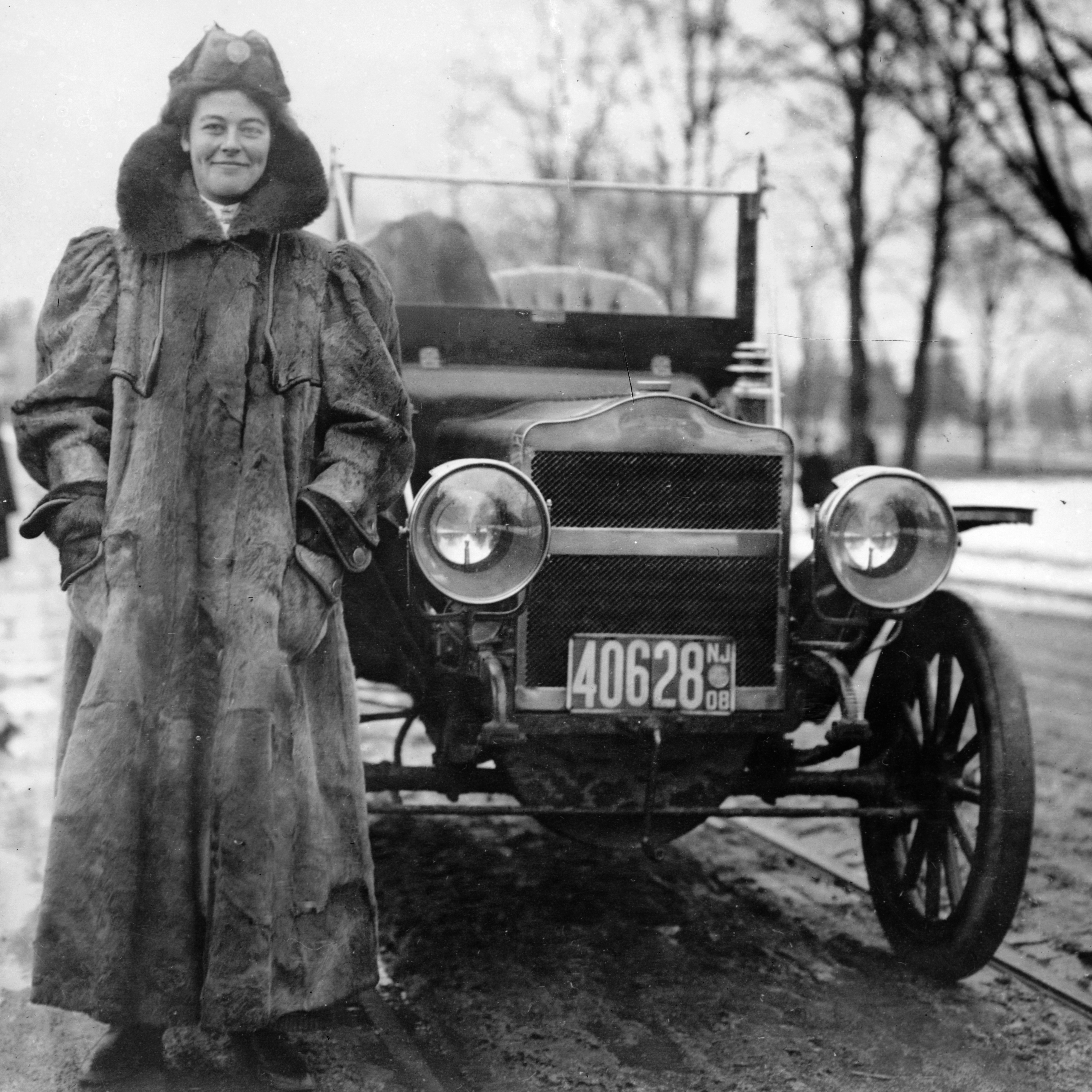 Alice Huyler Ramsey, standing beside her auto (crop)